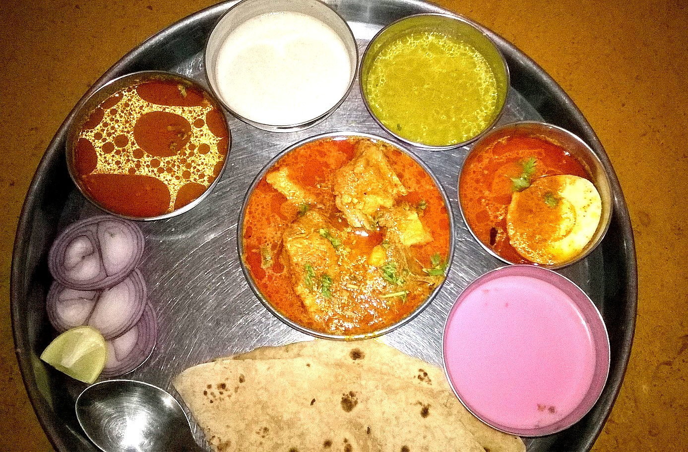 Traditional Kolhapuri Thali is a meal comprised of meat in red sauce, red and white gravies, Soup, Solkadhi ( Pink ) , Chapatis/ Bhakari, Rice, Lemon and Onion